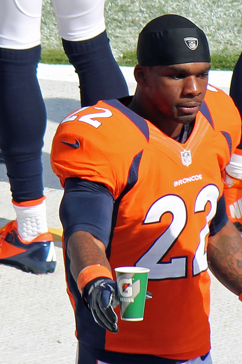 Tracy Porter, a player on the National Football League.